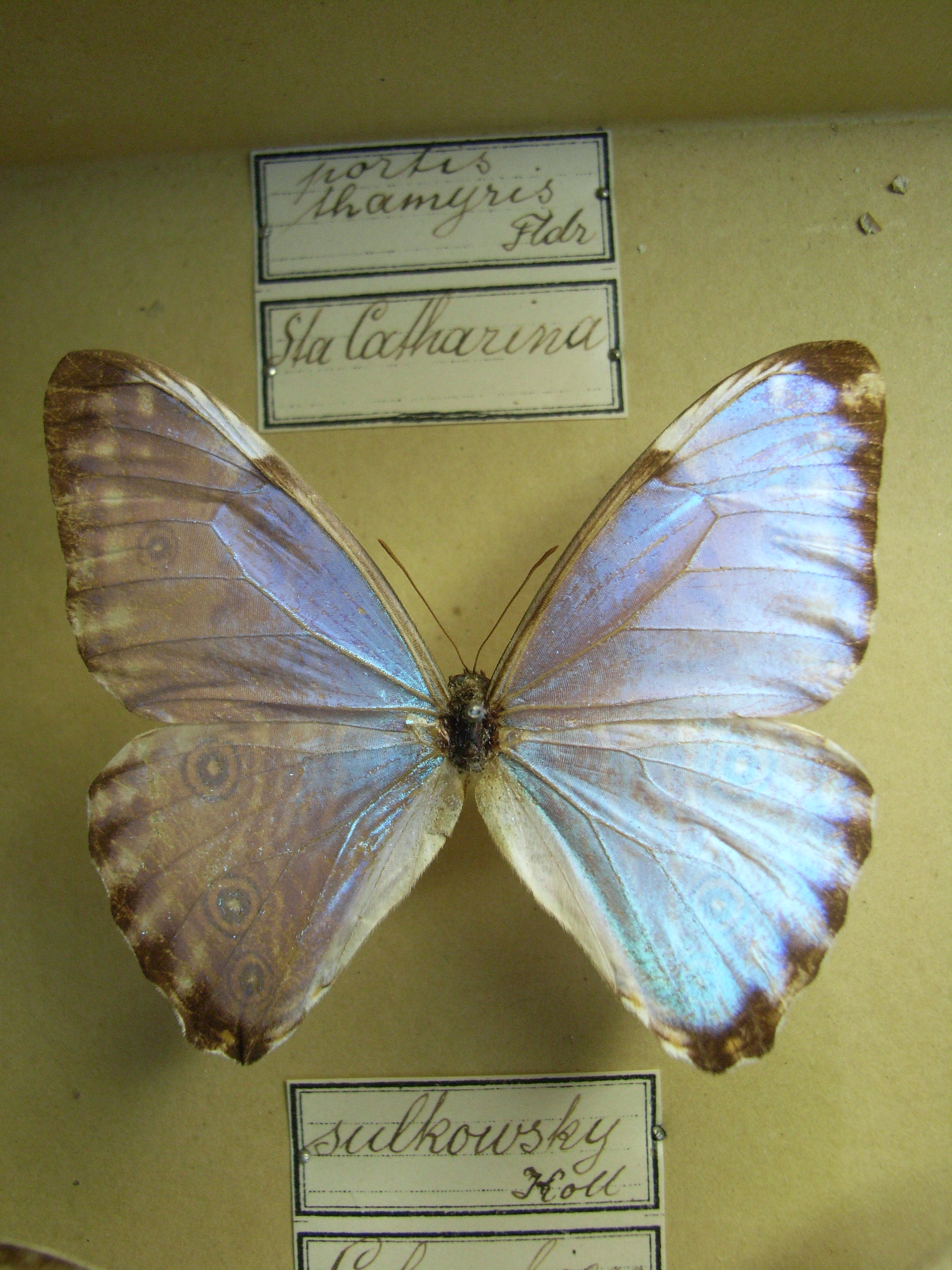 Morpho thamyris Ex Colllection Museum Wiesbaden